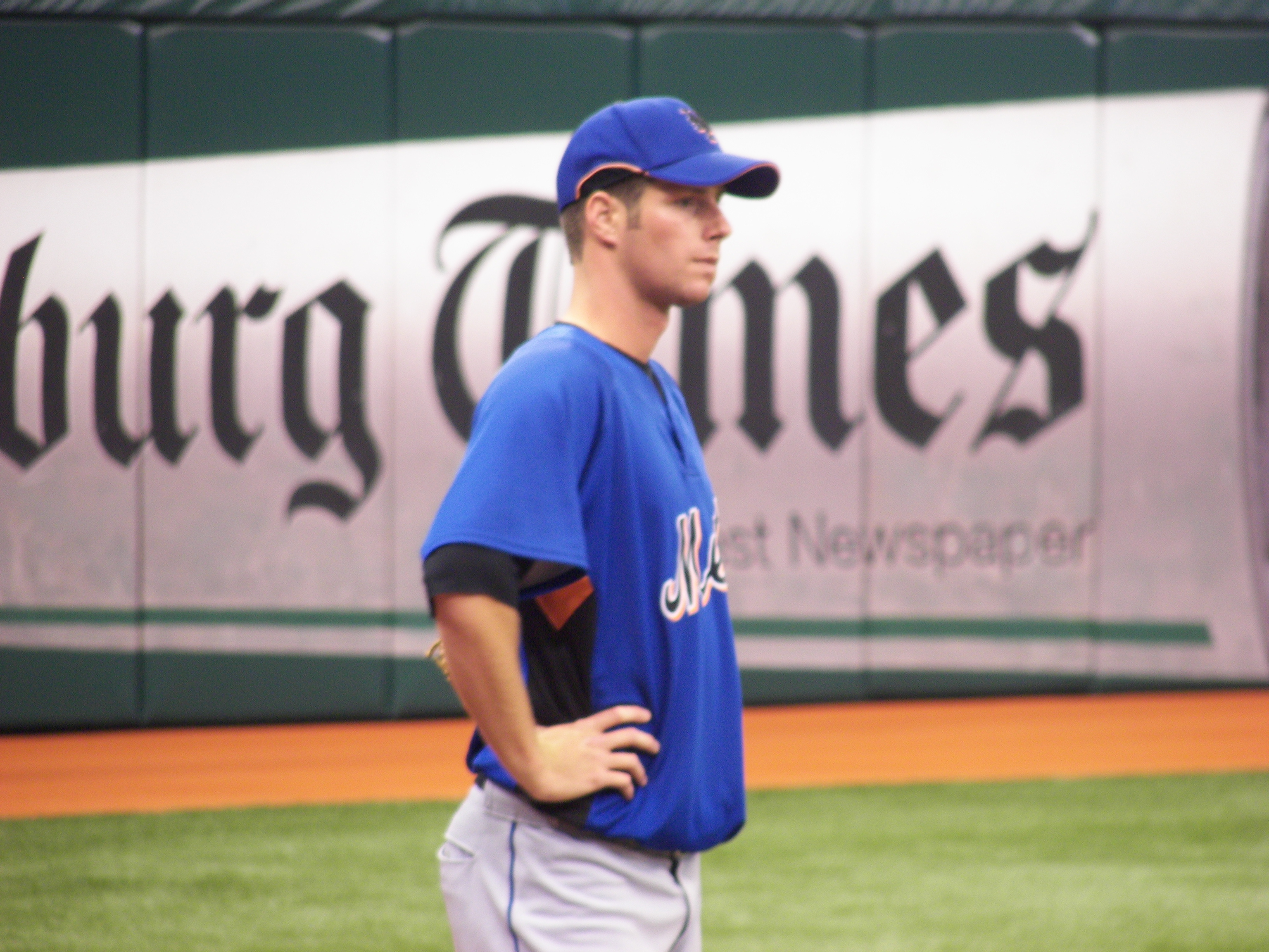 Mets pitcher John Maine before a Mets/Devil Rays spring training game at Tropicana Field in St. Petersburg, Florida.